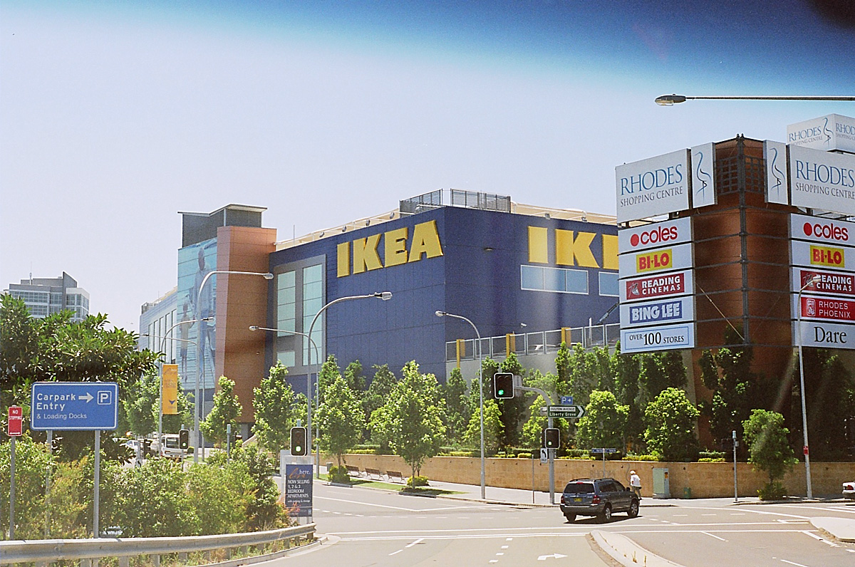 Rhodes Shopping Centre, Sydney. Photo taken through the windscreen of a car (I was a passenger) 18NOV2006. So it has some flaring and the windscreen tinting shows. But it is a photo of the centre and looks reasonably like it.